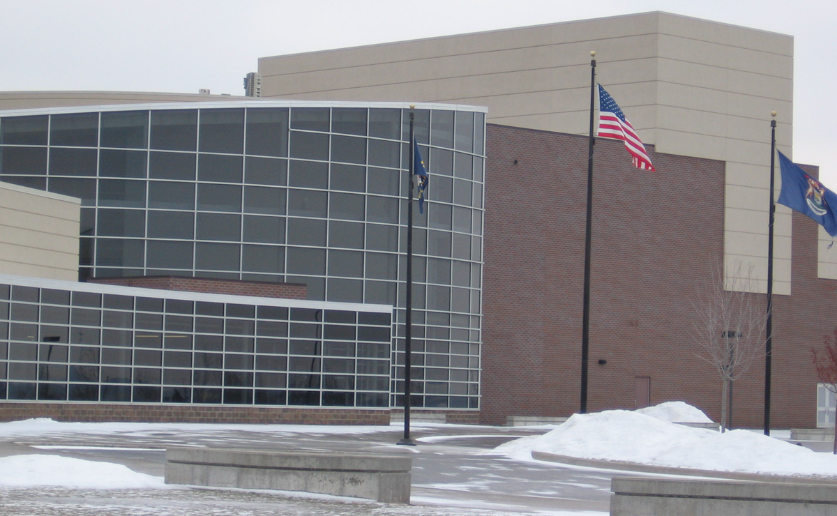 The main entrance view of Oxford High School in Oxford, Michigan.